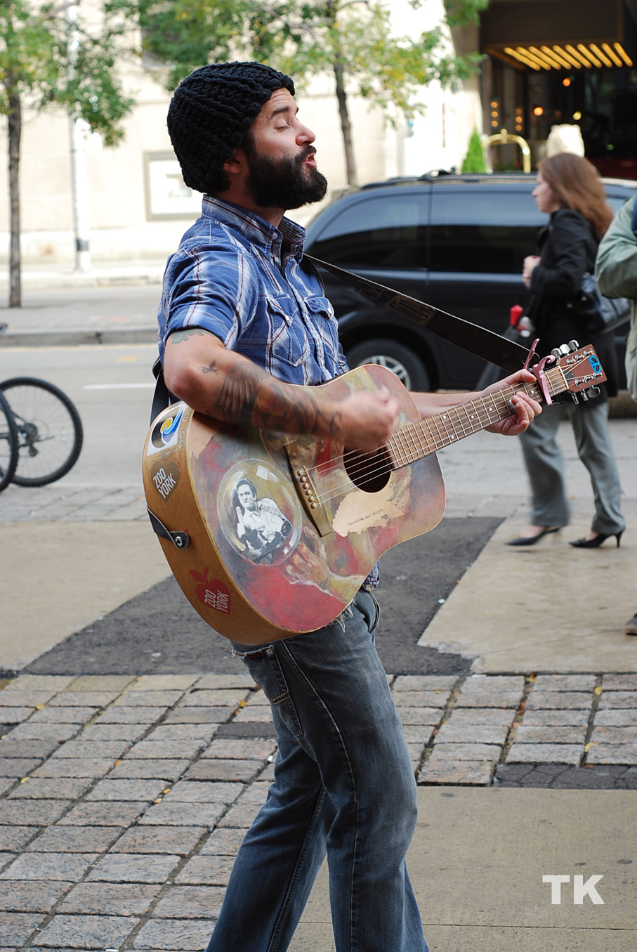 Jay Sparrow